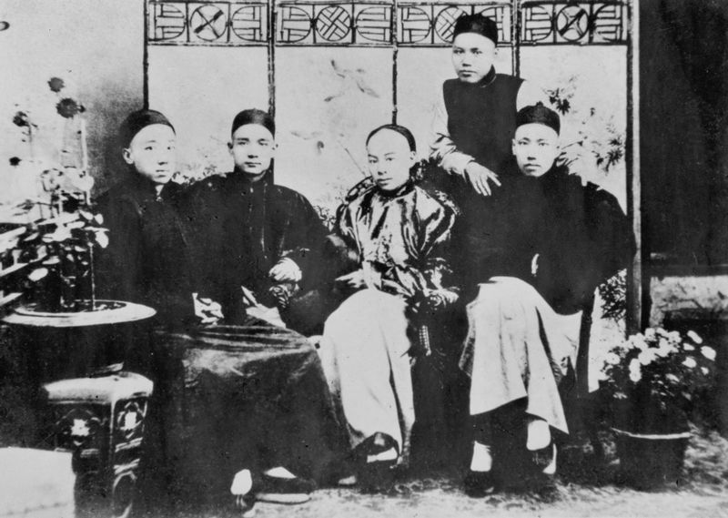 Sitting, from left to right: Yang Heling, Sun Yat-sen, Chen Shaobai and You Lie. Standing: Guan Jingliang.